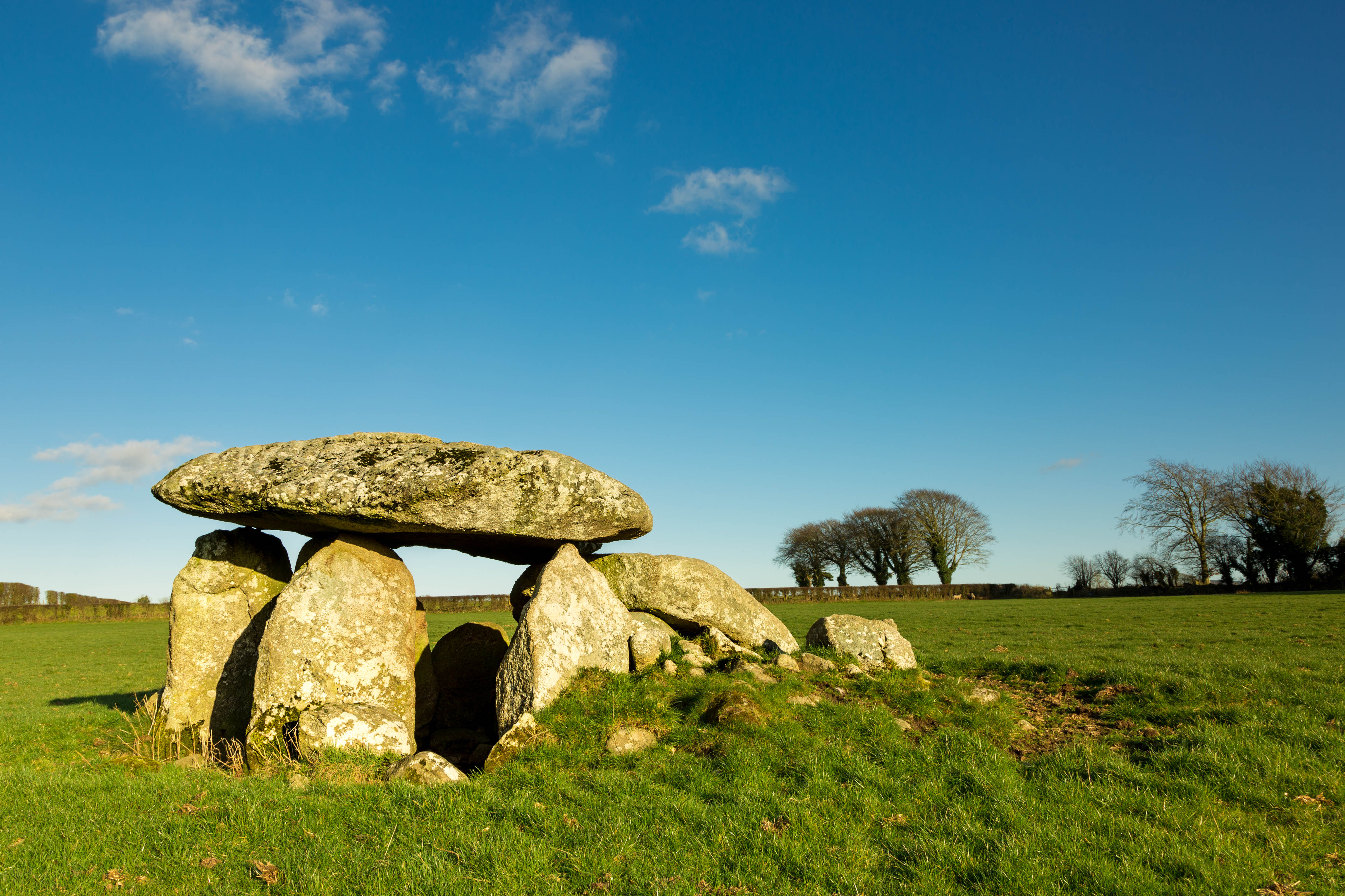 Travelling between meetings in Carlow and Dublin, I stopped off at Haroldstown Tomb.